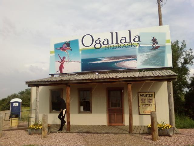 Photo Op spot near Highway 80